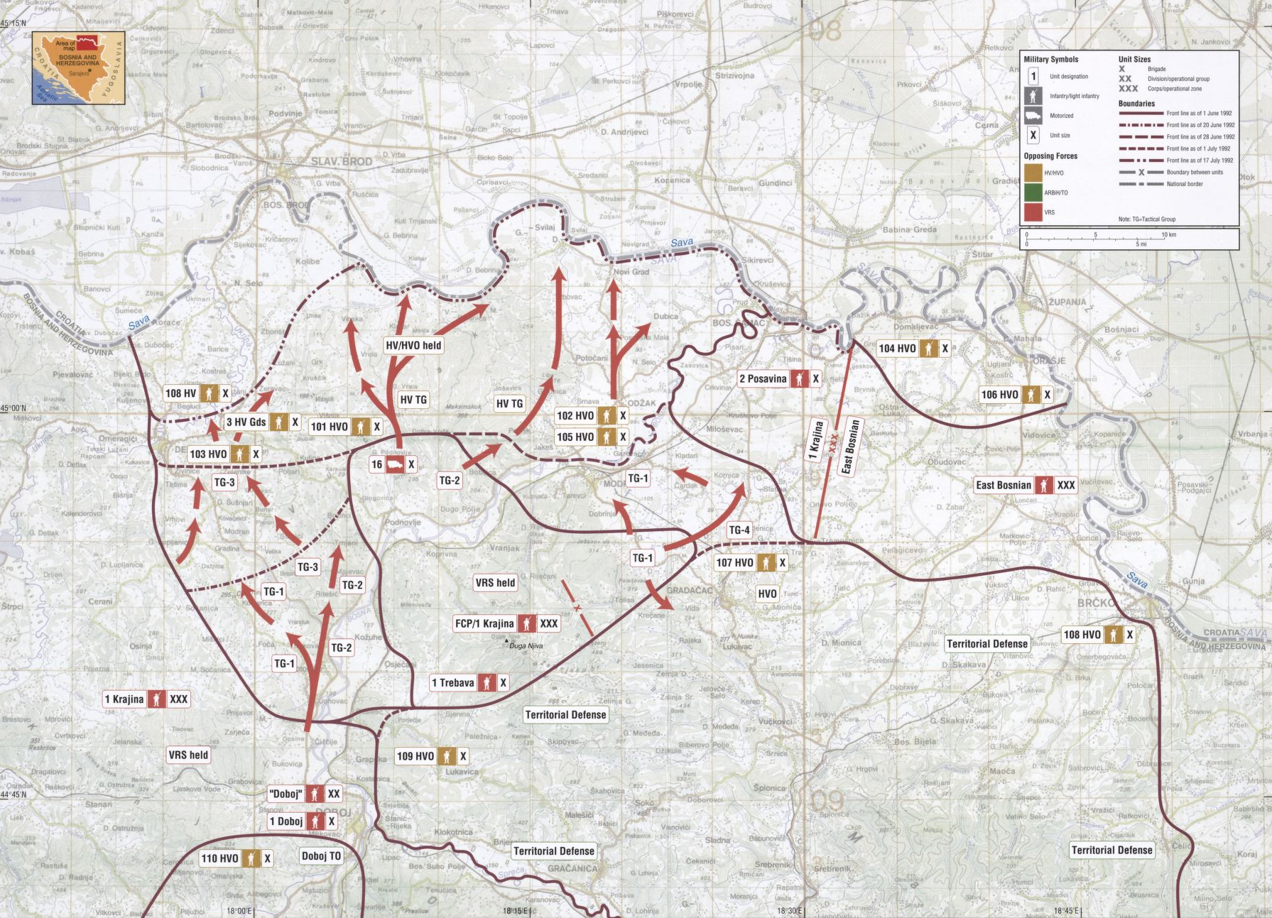 Map of the Posavina Corridor (Operation Corridor 92 of the Army of the Republika Srpska) in June-July 1992. Balkan Battlegrounds Map 10